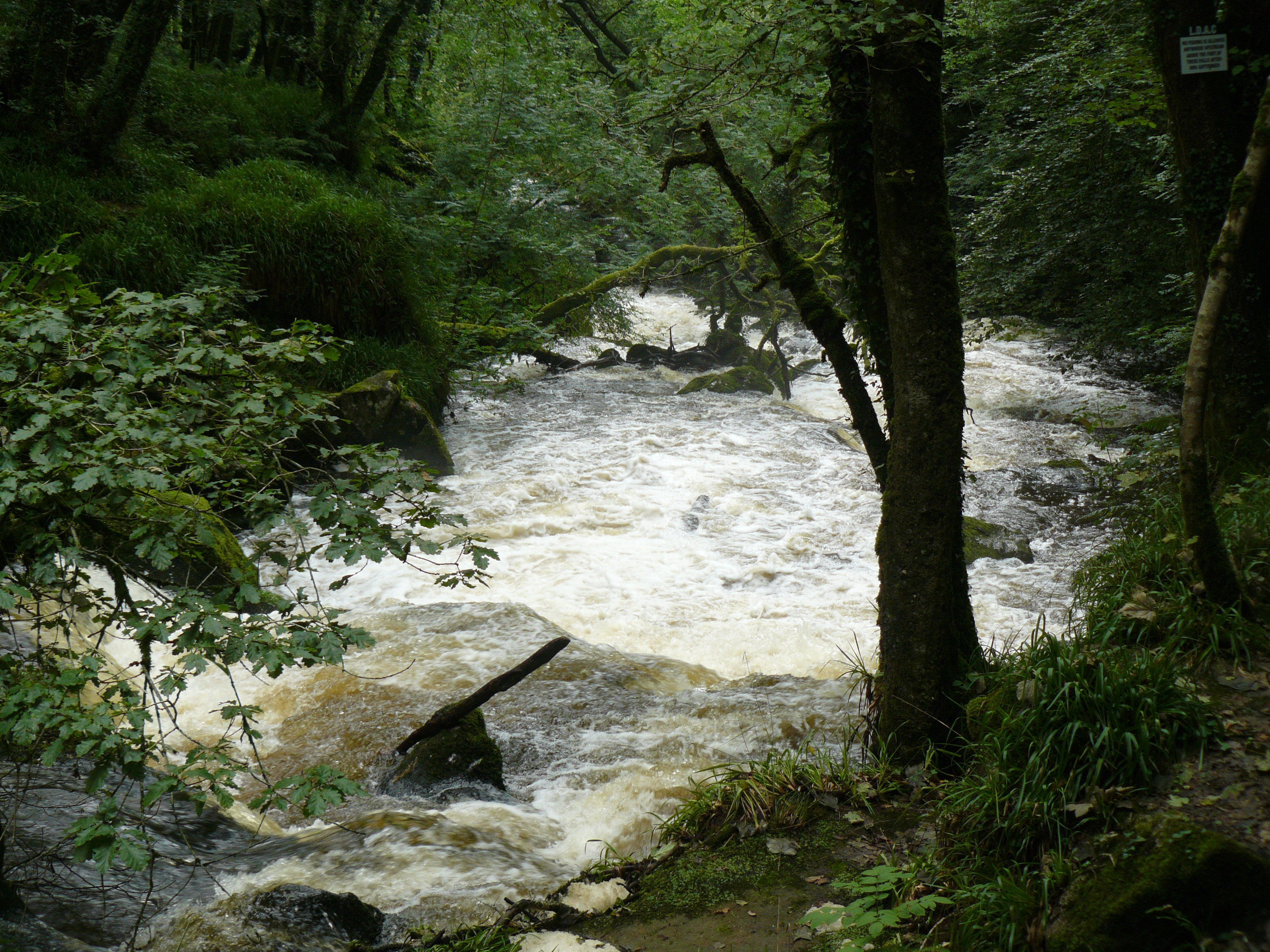 Golitha Falls on the River Fowey